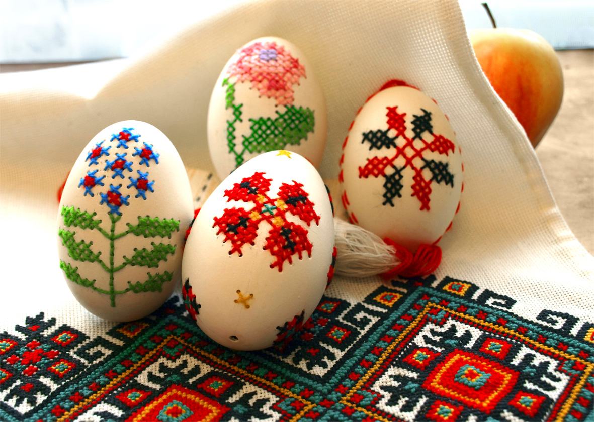 Cross stitched Easter eggs by Inna Forostyuk (on facebook), the folk master of Luhansk region (Ukraine). Materials: goose eggs, acrylic.